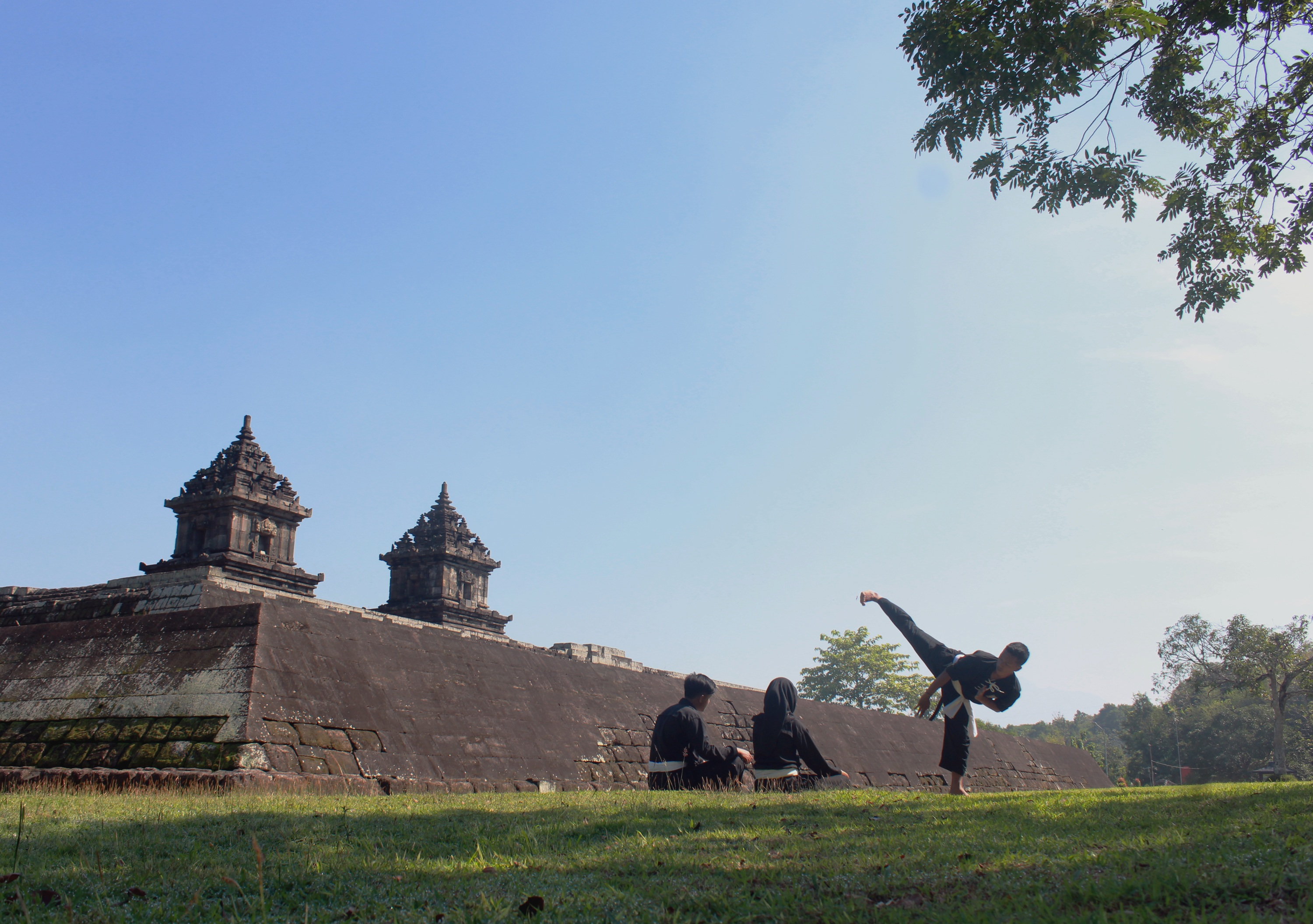 Pencak silat by Persaudaraan Setia Hati Terate (PSHT) at Candi Barong, Sleman, Yogyakarta, Indonesia.